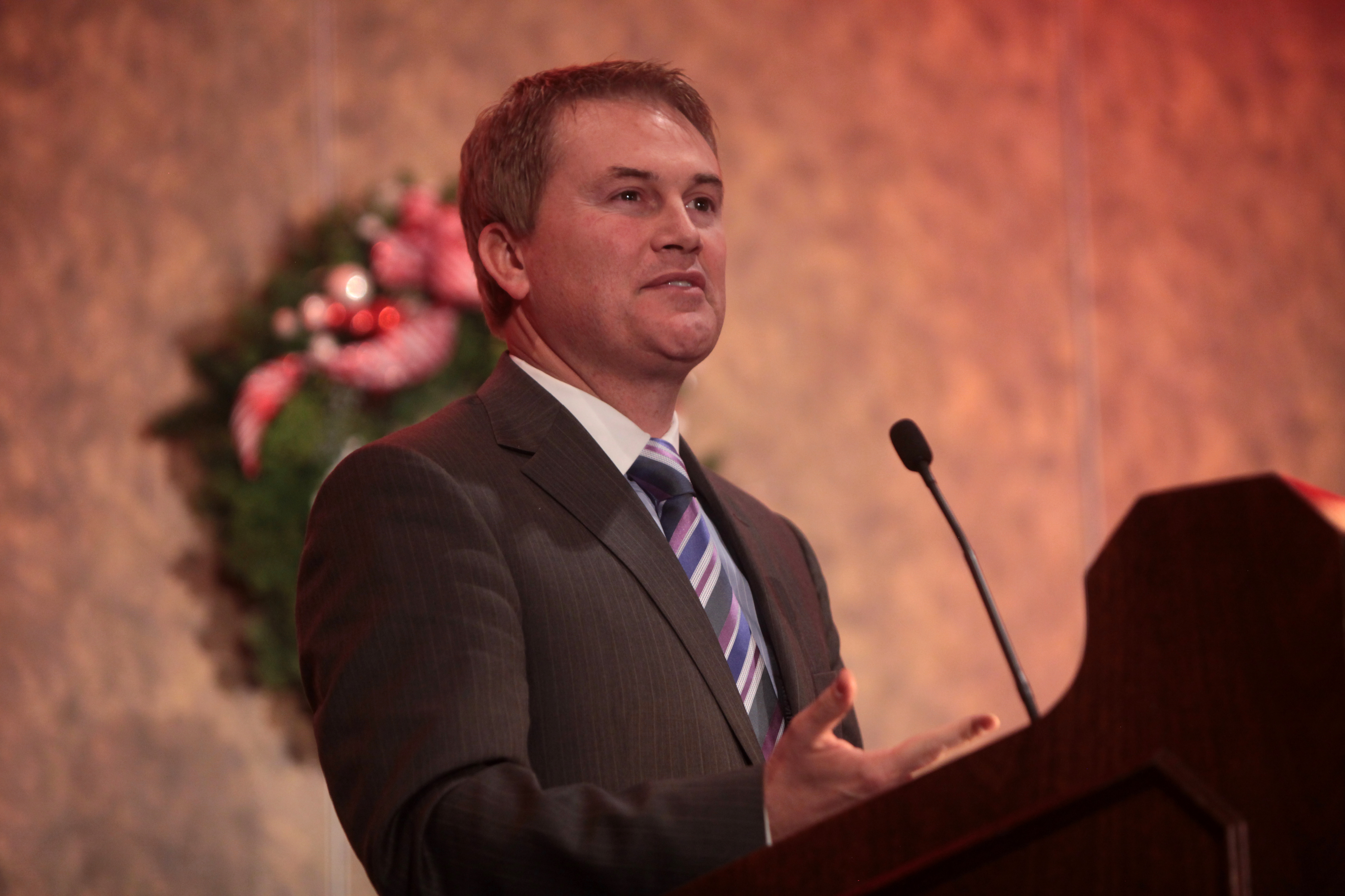 Agriculture Commissioner James Comer speaking at the 2014 Boone County Republican Party Christmas Gala at the Receptions Banquet Center in Erlanger, Kentucky.